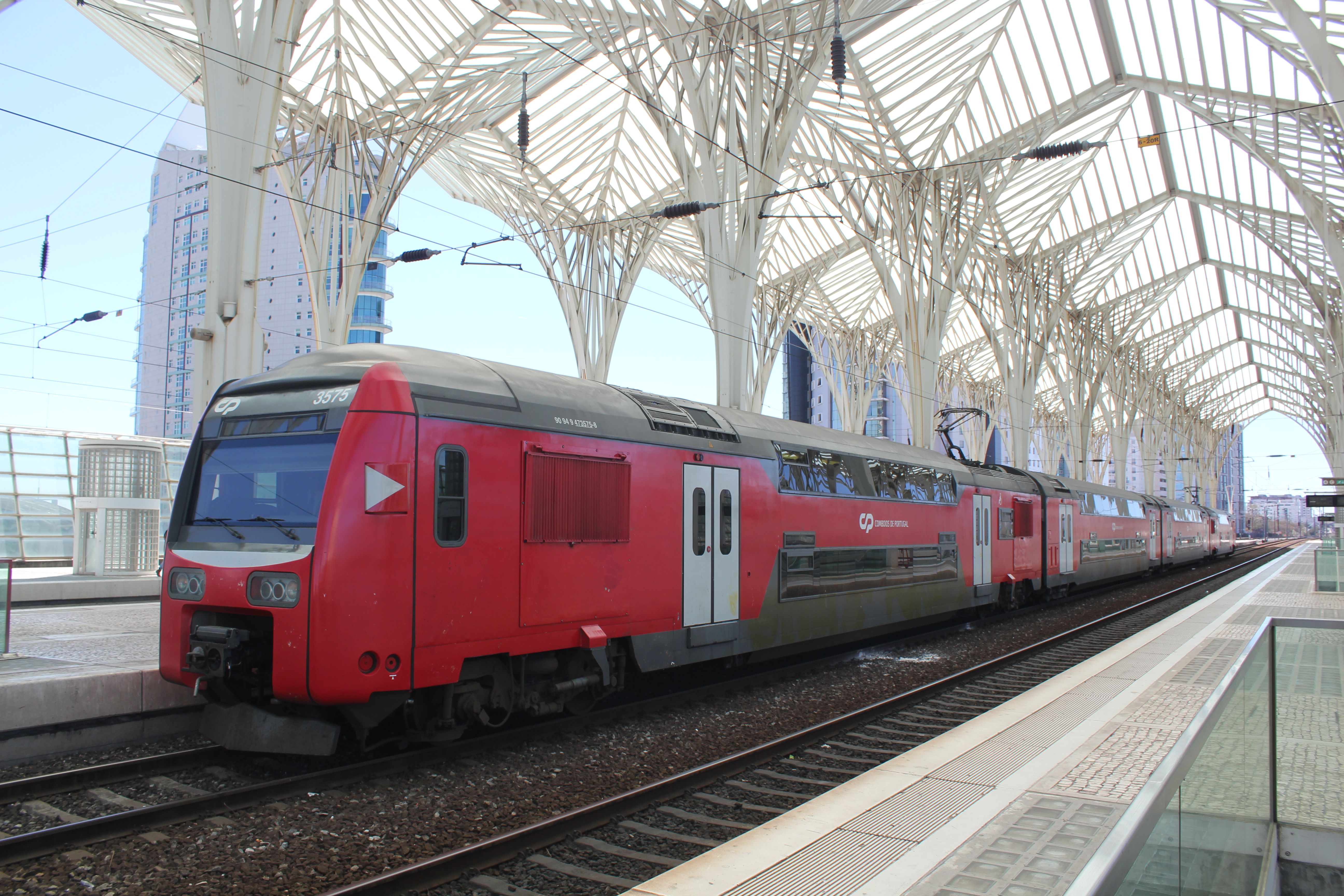 Portuguese train type 3575 in Gare do Oriente station